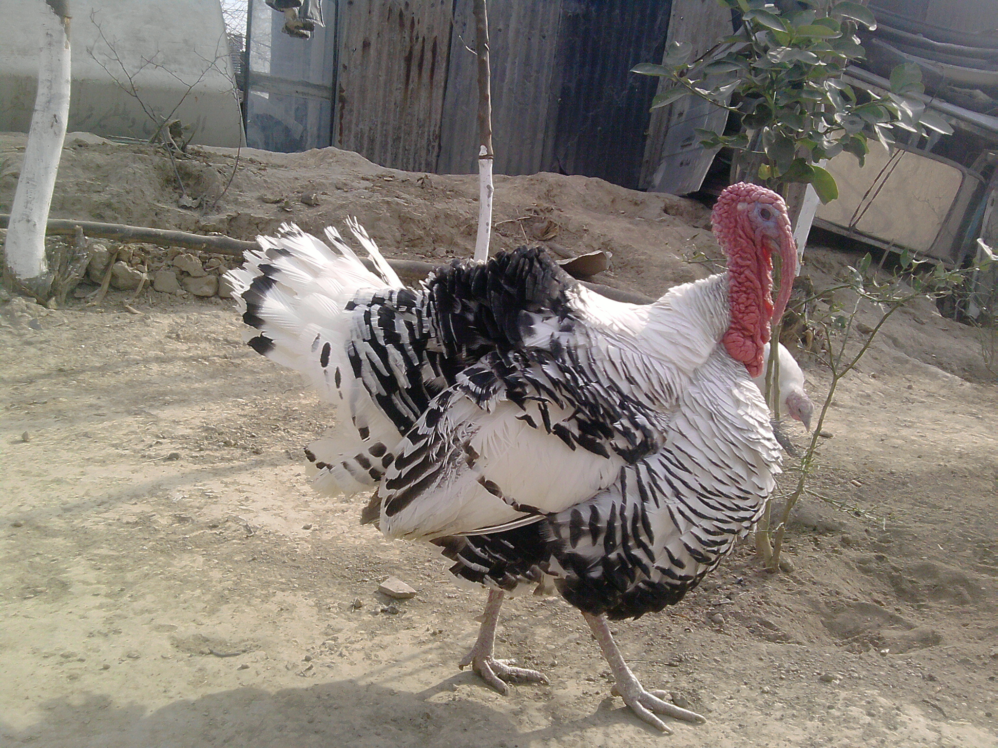 turkey in a house at Islamabad Pakistan